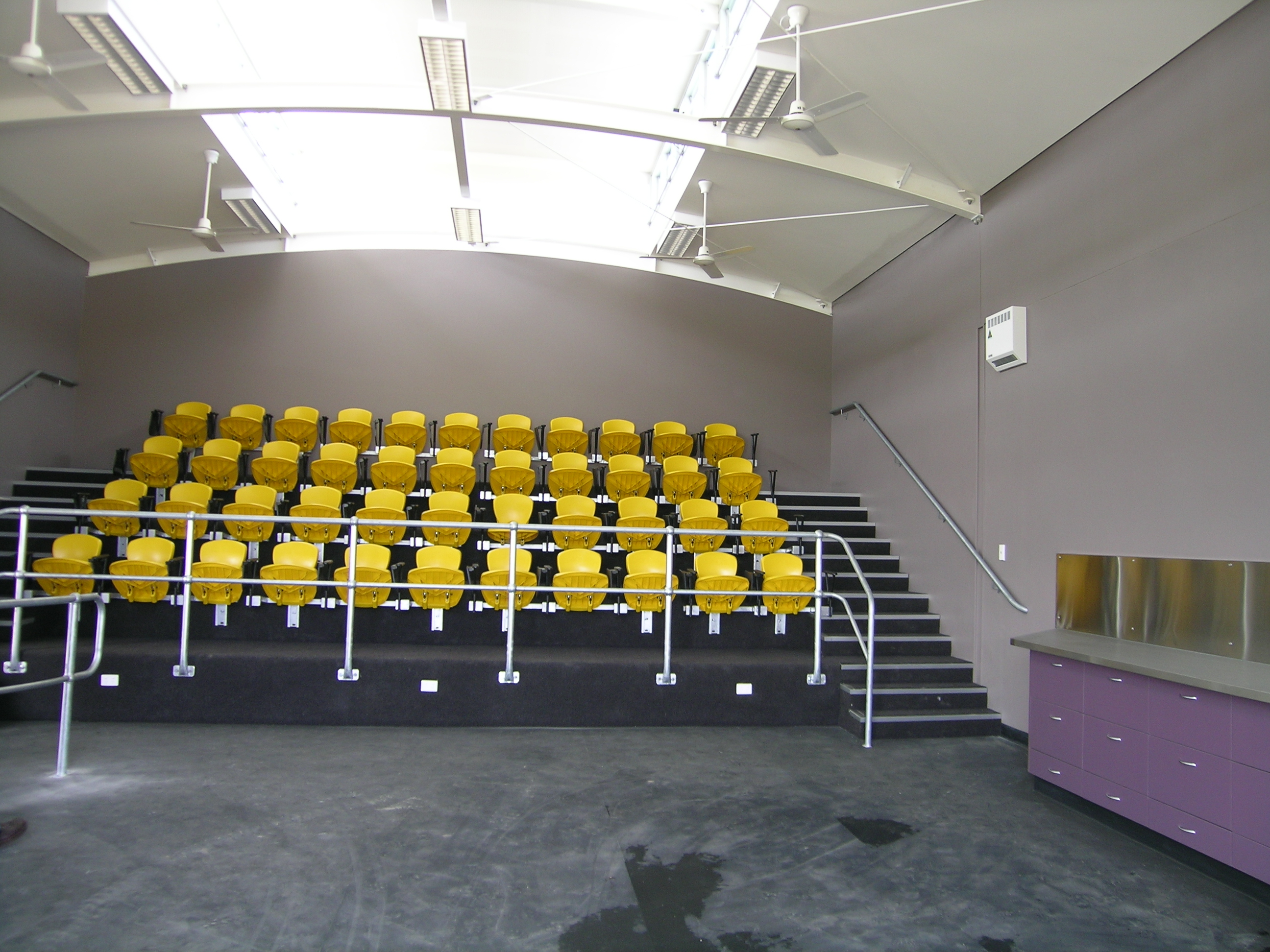 Lecture theatre with seating for 44 and an area where animals can be brought into the classroom.